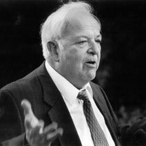 Burton Richter, 1976 Nobel Prize in Physics